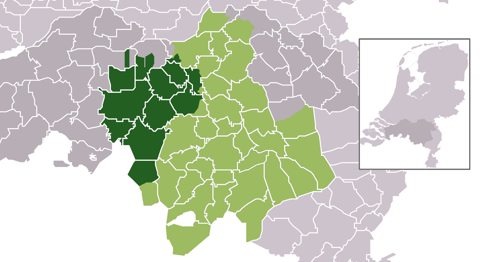 Quarter of Oisterijk in the historical Meierij van Den Bosch' Location maps for the 441 municipalities in the Netherlands. Boundaries 1/1/2009 Automatically generated with script File name contains "Municipality codes" (CBS-code) as specified in: [1] Created in svg using coordinate data derived from ESRI data published by Centraal Bureau voor de Statistiek, Voorburg/Heerlen. ([2]) Color coding and original design by user Mtcv (2006/2007) ([3])